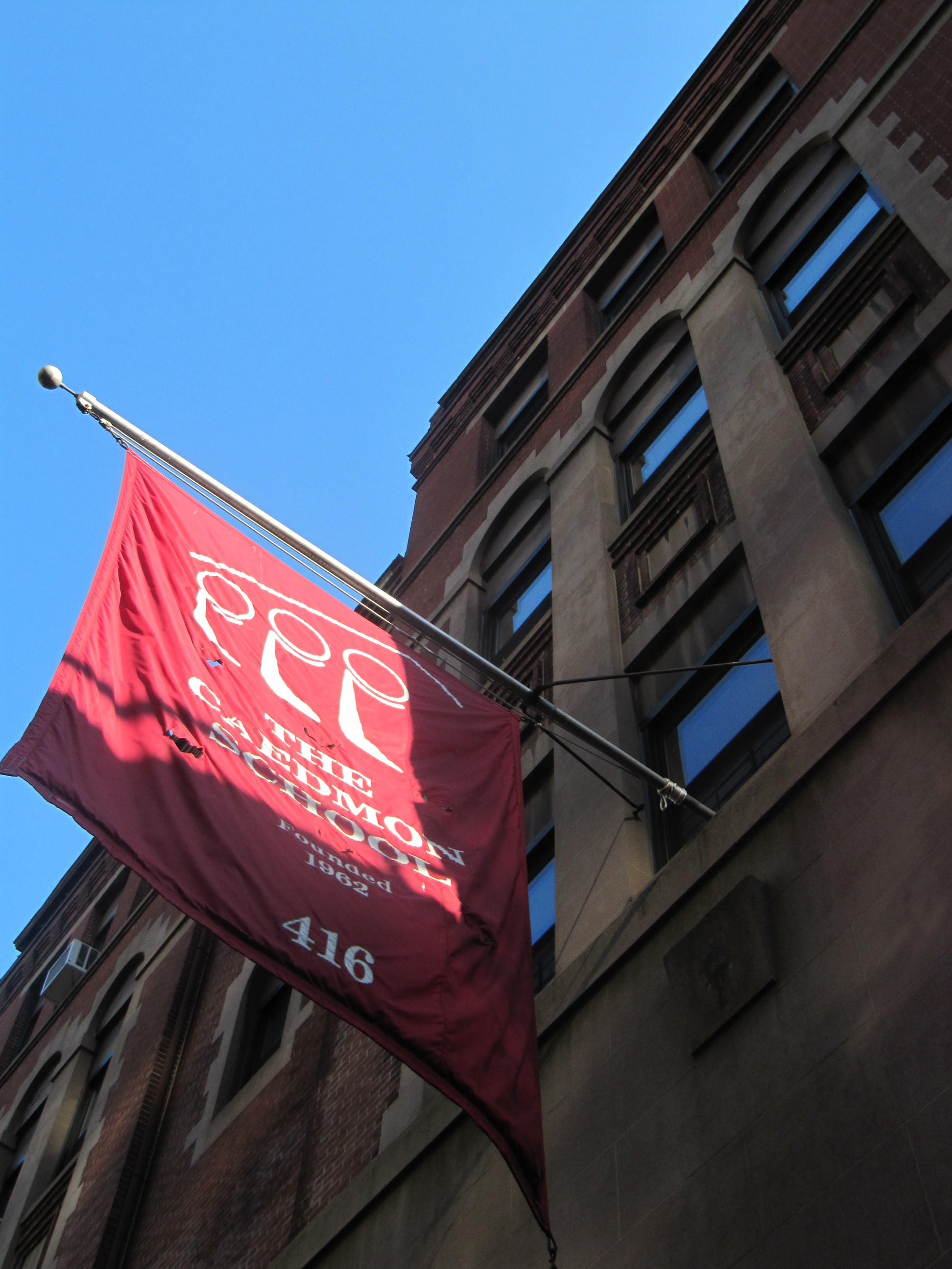 The Caedmon School an independent elementary school and pre-school located on the Upper East Side of Manhattan in New York City. The school, which employs a modified Montessori curriculum, was the first Montessori school established in New York City and the second in the United States.